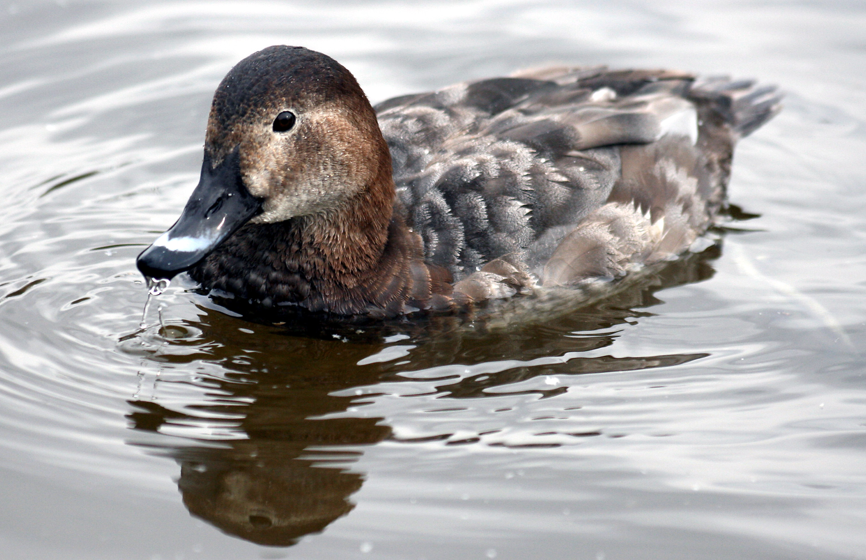 Duck - St James's Park, London, England - March 15th 2008.